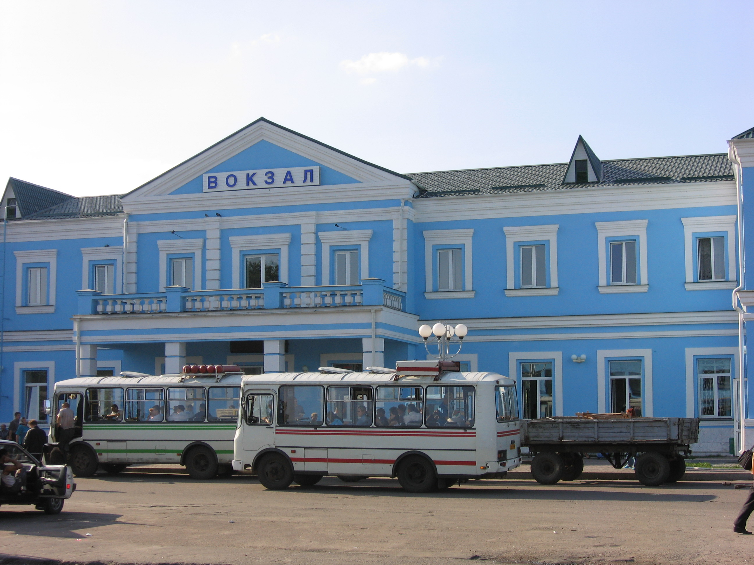 Nizhyn railway station, South-Western Railway, Ukraine.